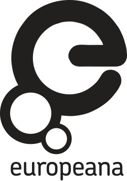 Logo of Europeana